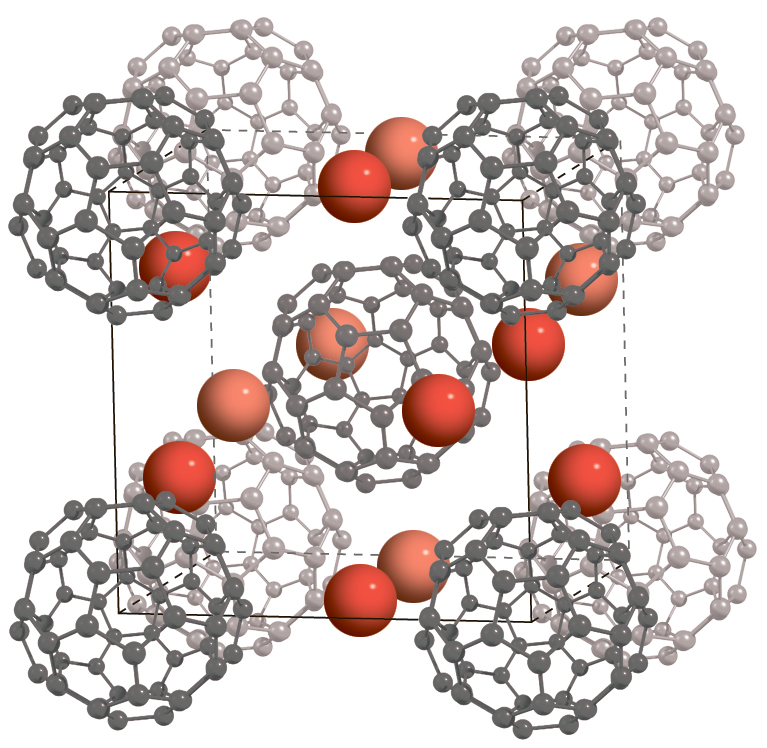 Fulleride Cs3C60.